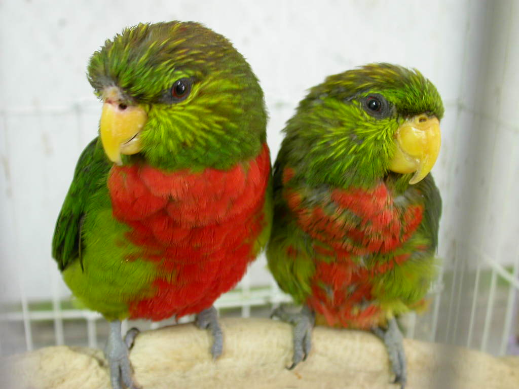 Yellow-billed Lorikeet; two in a cage.